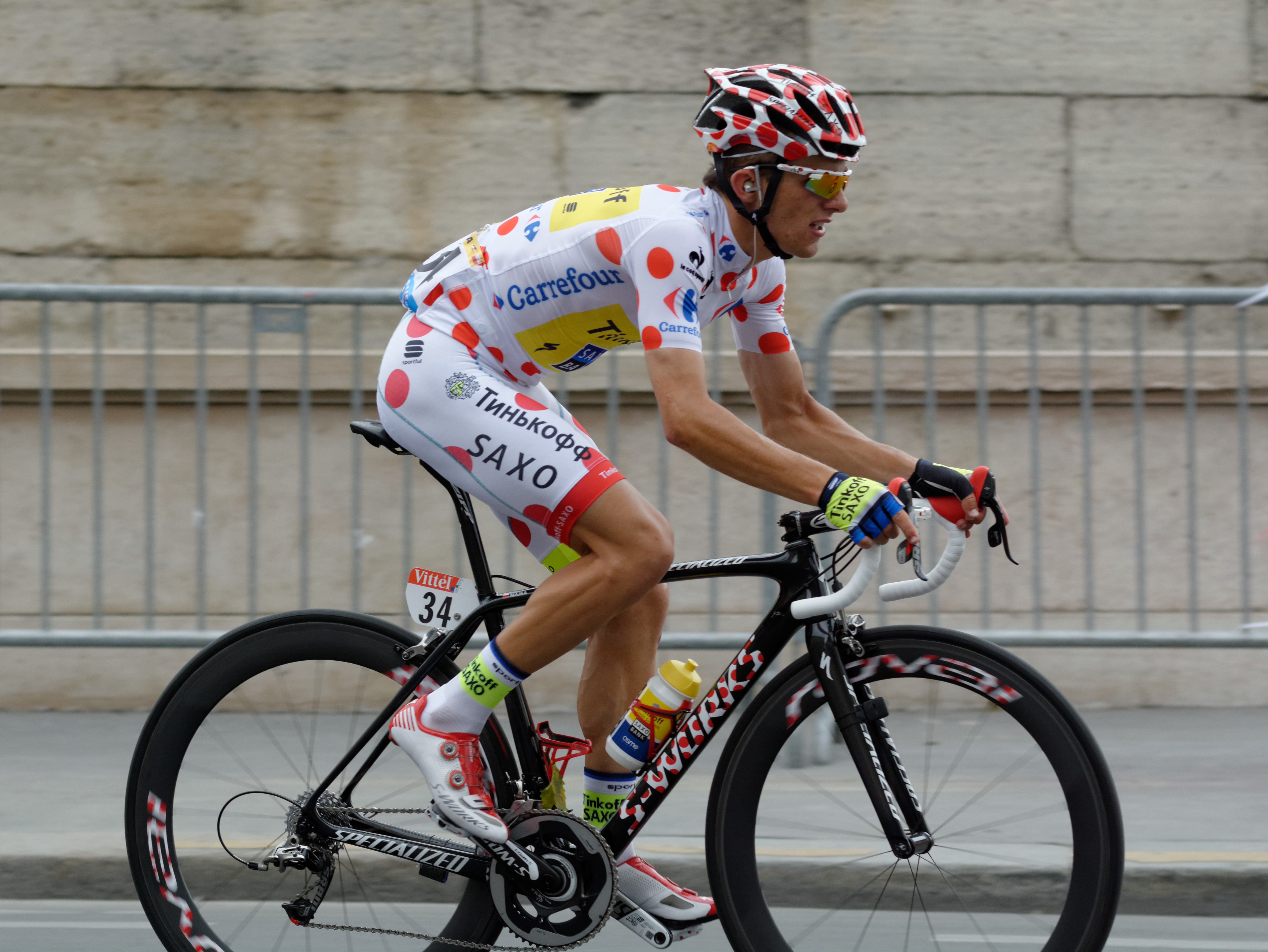 Stage 21 of the 2014 Tour de France, Paris.